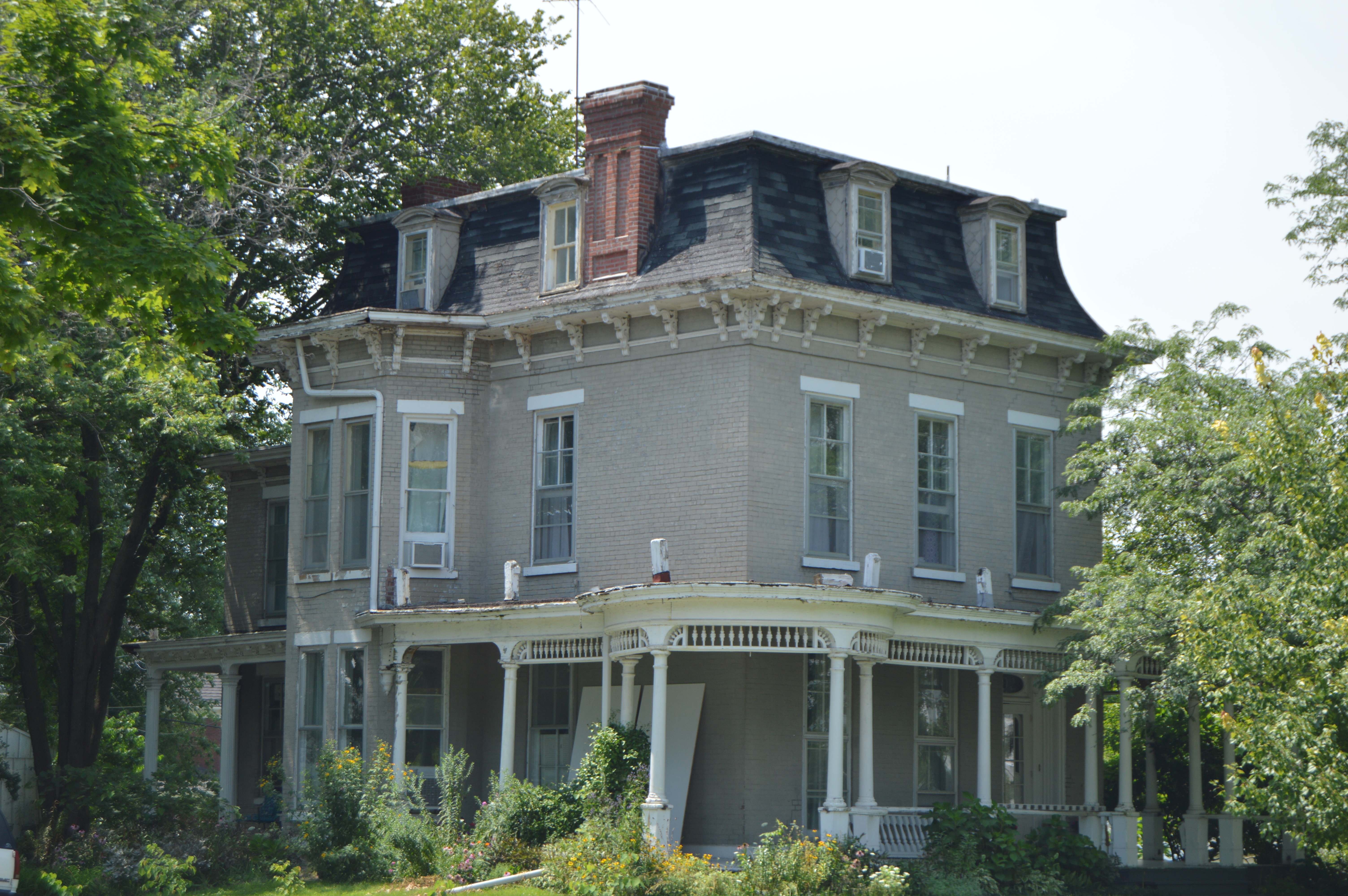 Northeastern front and southeastern side of the Alois and Annie Weber House, located at 802 Orleans Avenue in Keokuk, Iowa, United States. Built in 1873, it is listed on the National Register of Historic Places.